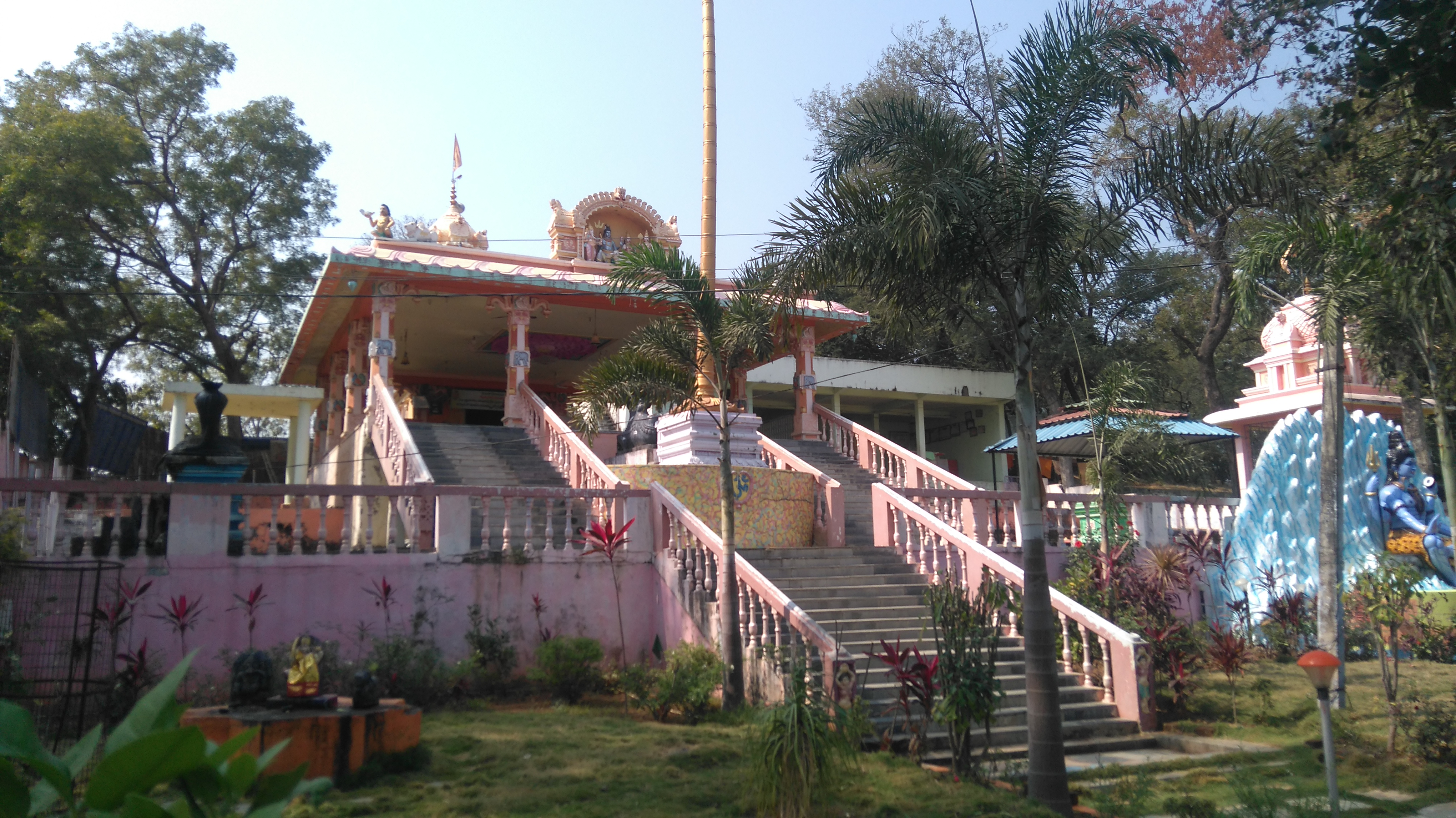 Shree RajaRajeshwara Swamy Temple in Kothapally with Beautiful garden